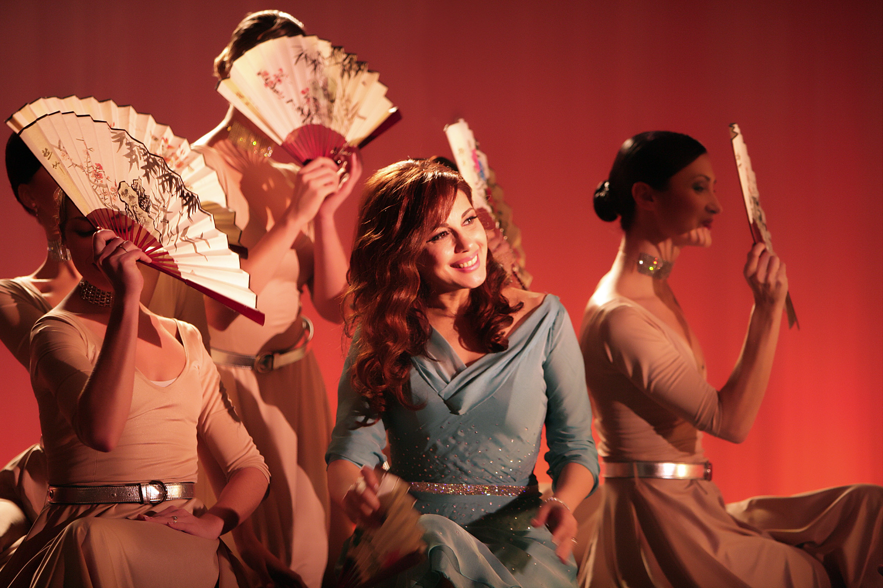 Majida during her video shoot for her hit "Etazalet El Gharam" in 2006.